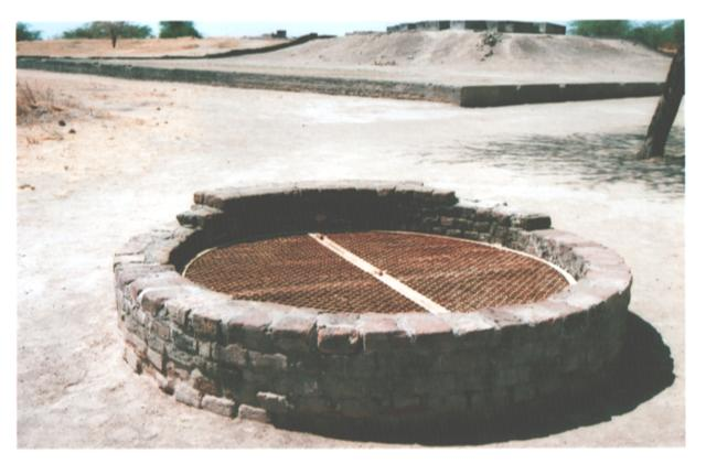 main well in Lothal (India)